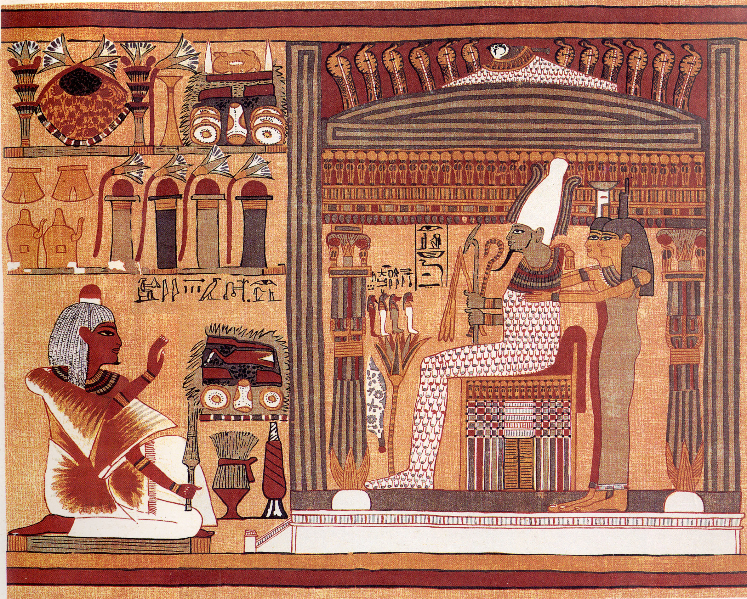 Facsimile of a vignette from the Book of the Dead of Ani. The deceased Ani kneels before Osiris, judge of the dead. Behind Osiris stand his sisters Isis and Nephthys, and in front of him is a lotus on which stand the four sons of Horus.